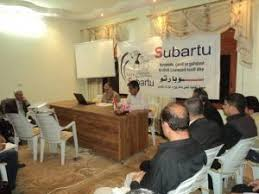 Farouk Ismail - A seminar in Qamişlo - Syria